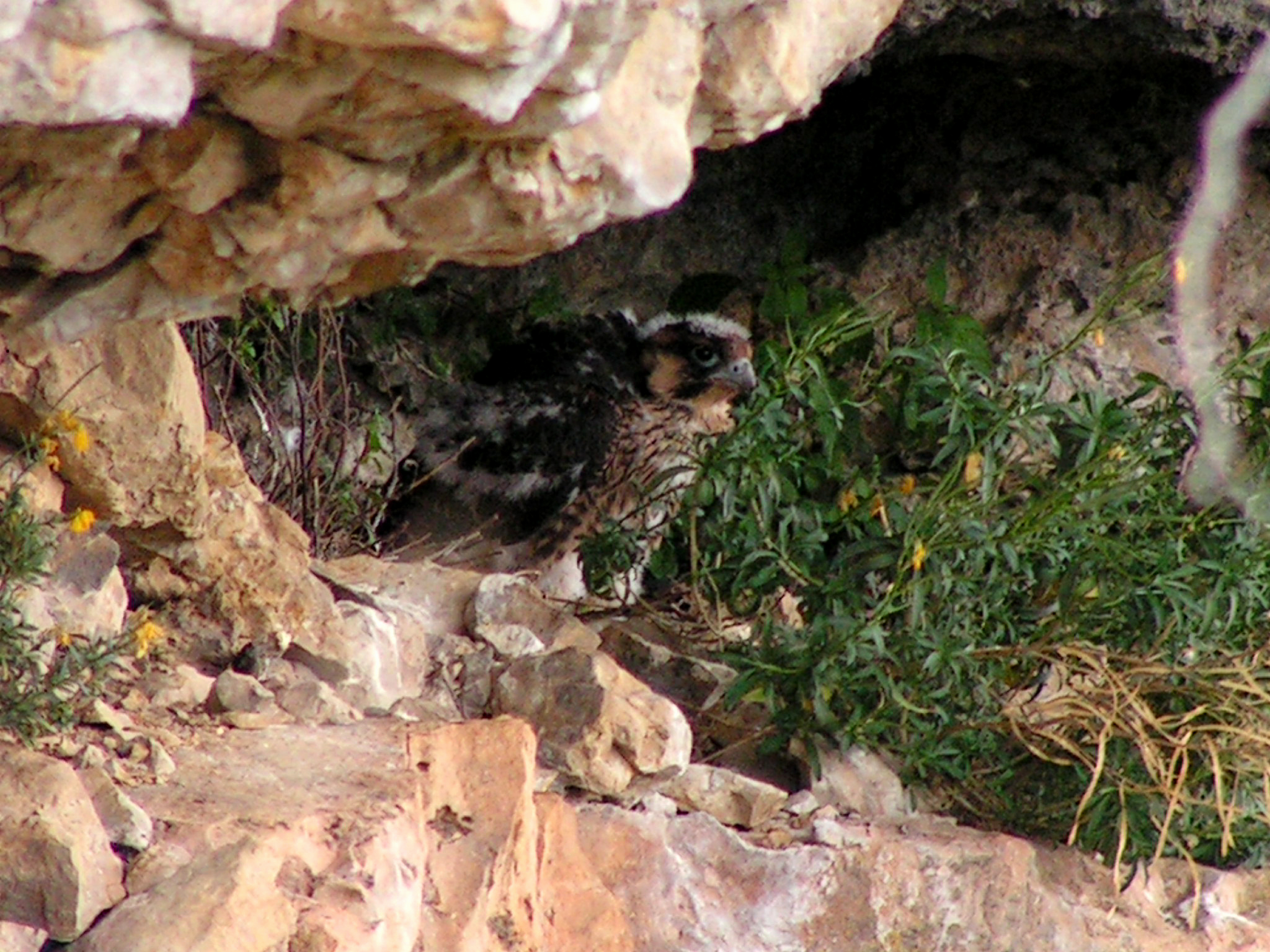 Young Peregrine Falcon (Falco peregrinus) at nest (Salles-la-Source, Aveyron, France).